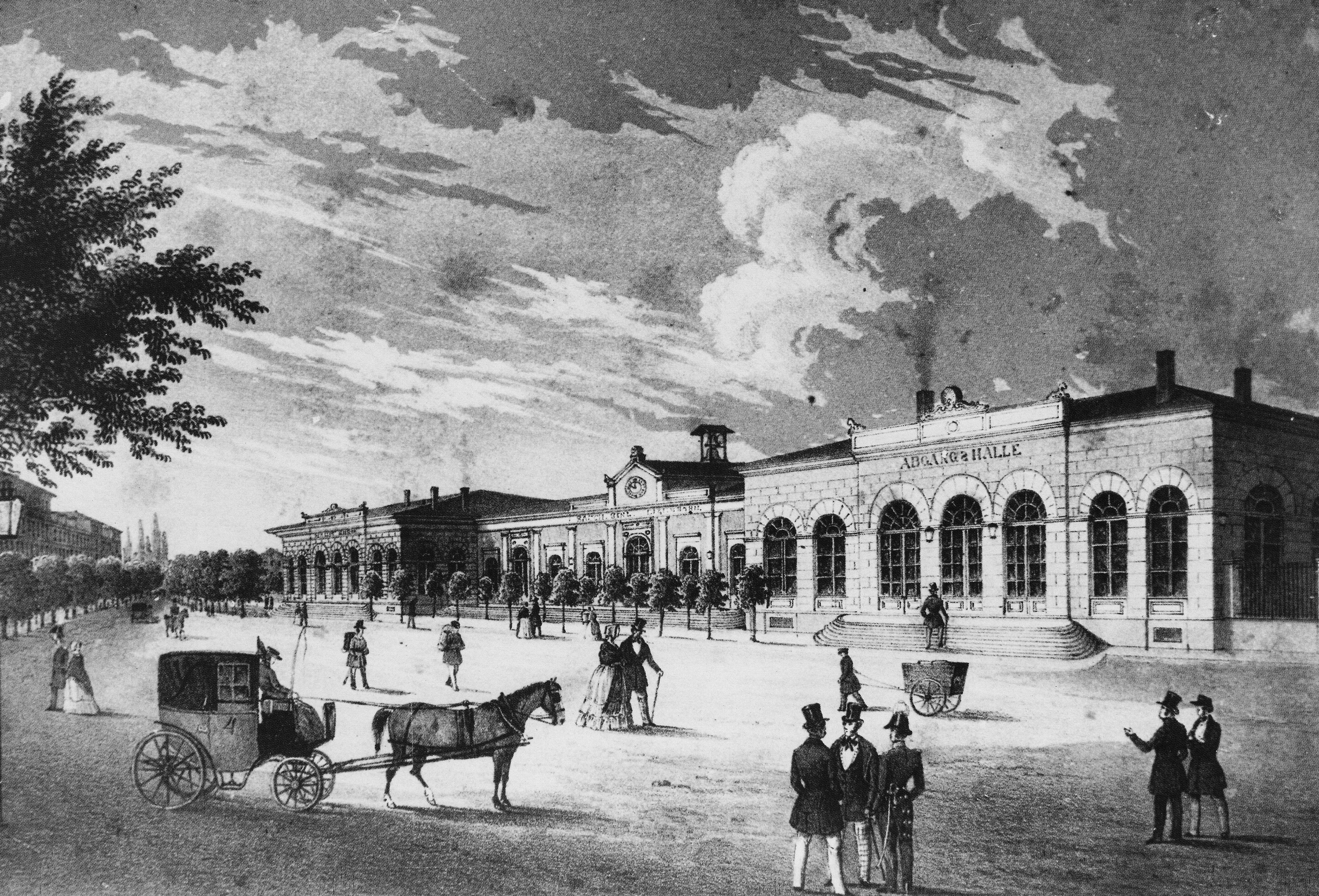 Silesian Station in Dresden around 1850